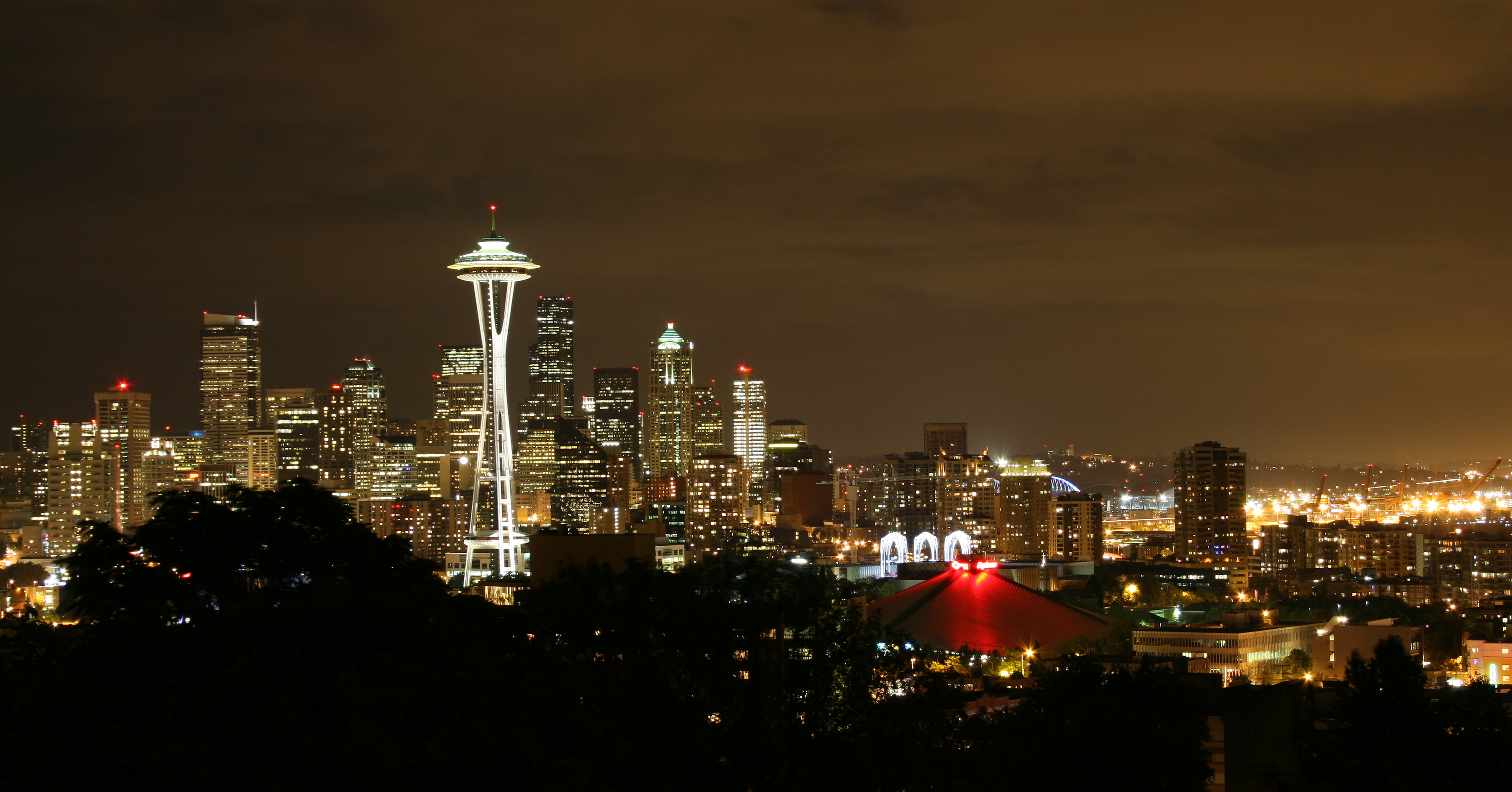 A picture taken by myself summer of 2006 in Seattle Washington. Picture taken from Queen Anne hill (Kerry Park) with a Canon 30D.